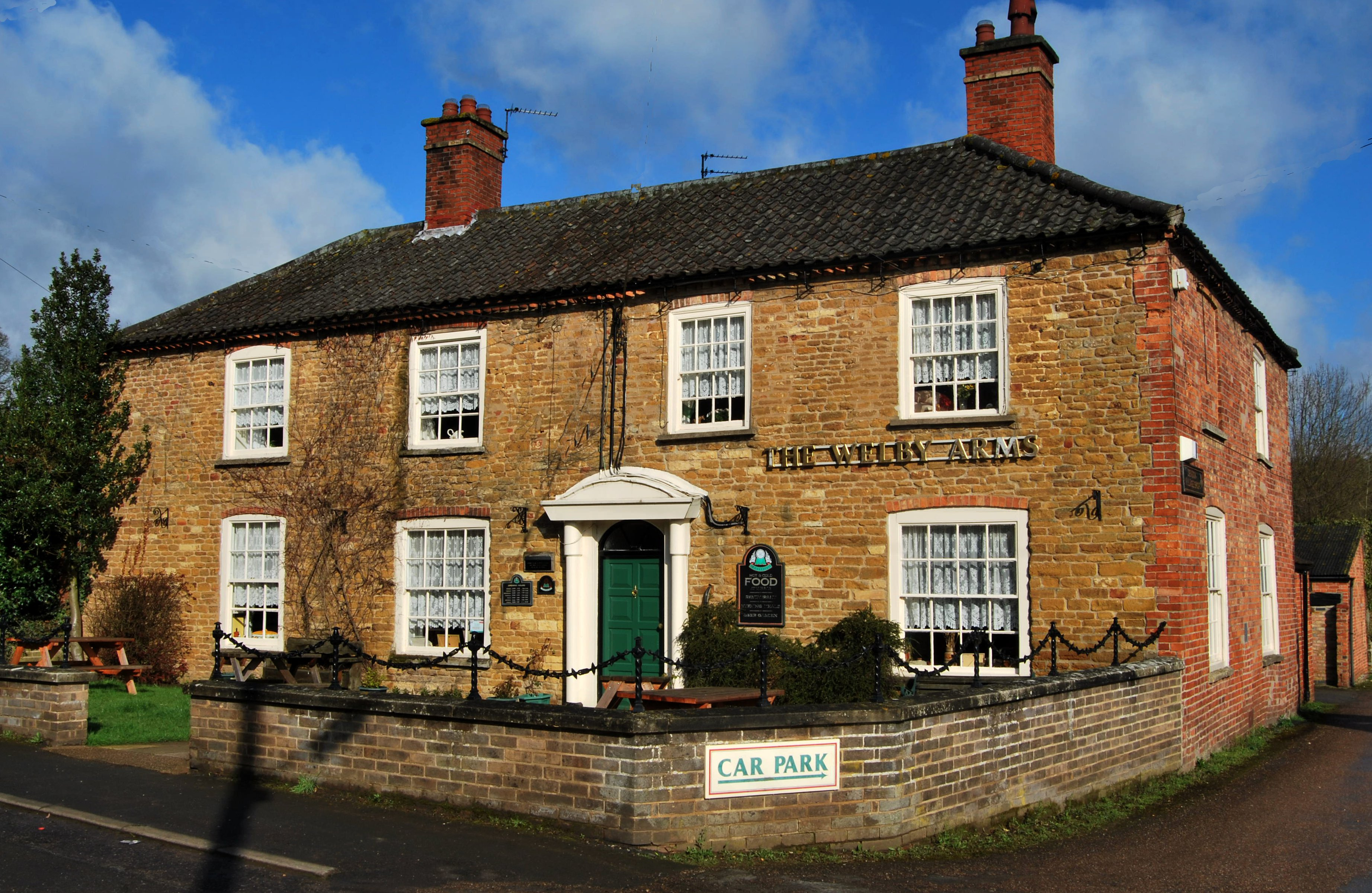 The Welby Arms Denton near Granthan